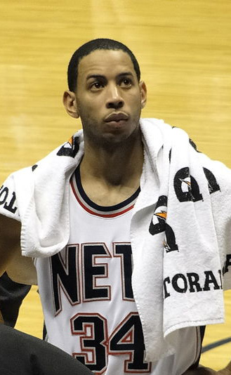 Devin Harris of the New Jersey Nets, March 2009.